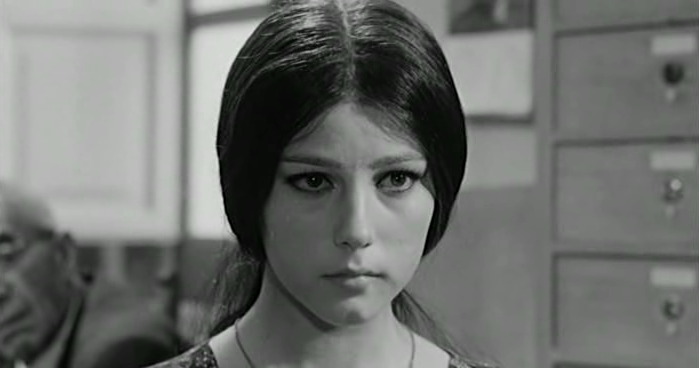 screenshot from the film Sedotta e abbandonata (1963)